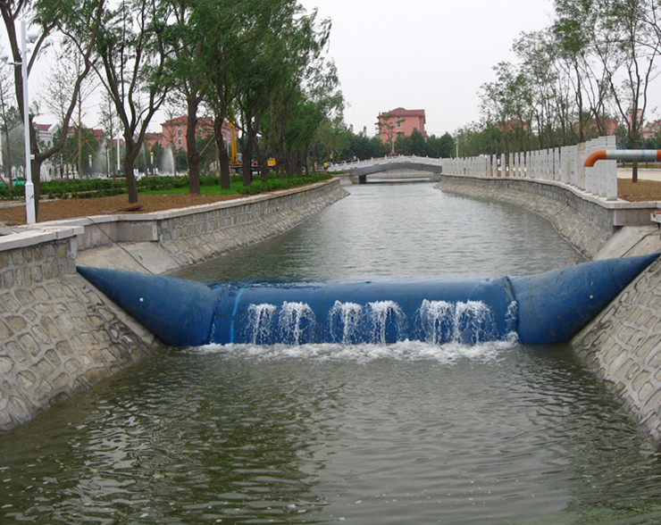 huachen rubber dam